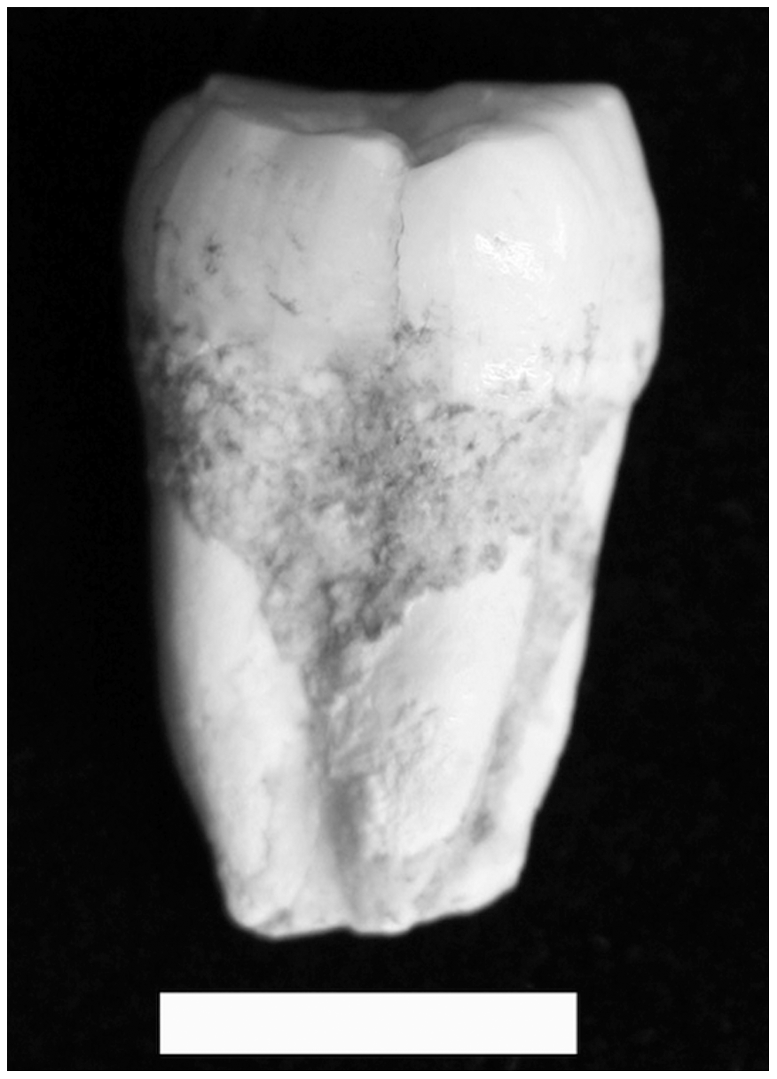 Isolated M3 – specimen MLDG 1747 (scale bar = 1 cm) exhibiting marked taurodontism.